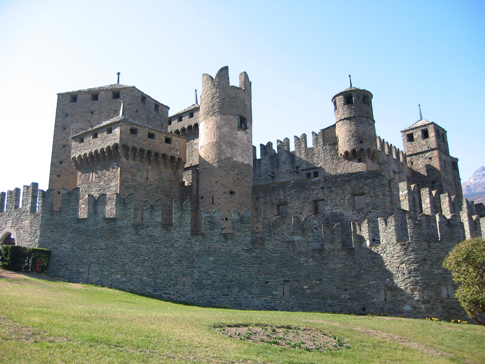 Castle of Fénis